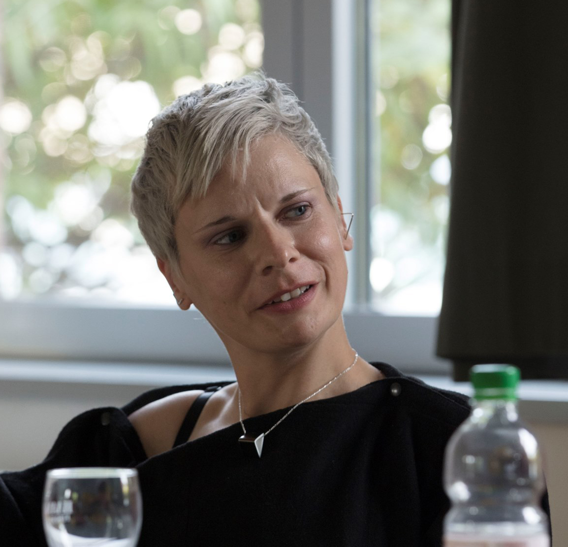 Headshot of Claire Cunningham